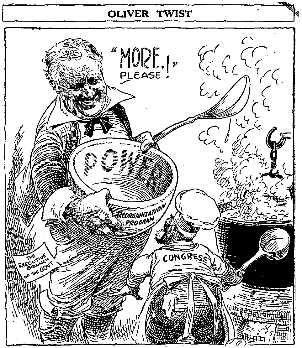 "Oliver Twist." FDR wants more power from Congress. reorganization program executive branch.